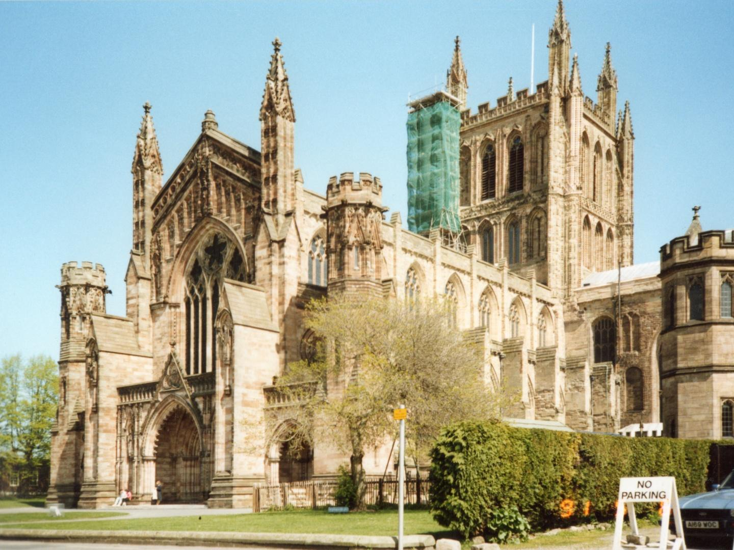 Hereford, England. The Hereford Cathedral as in May 1991.